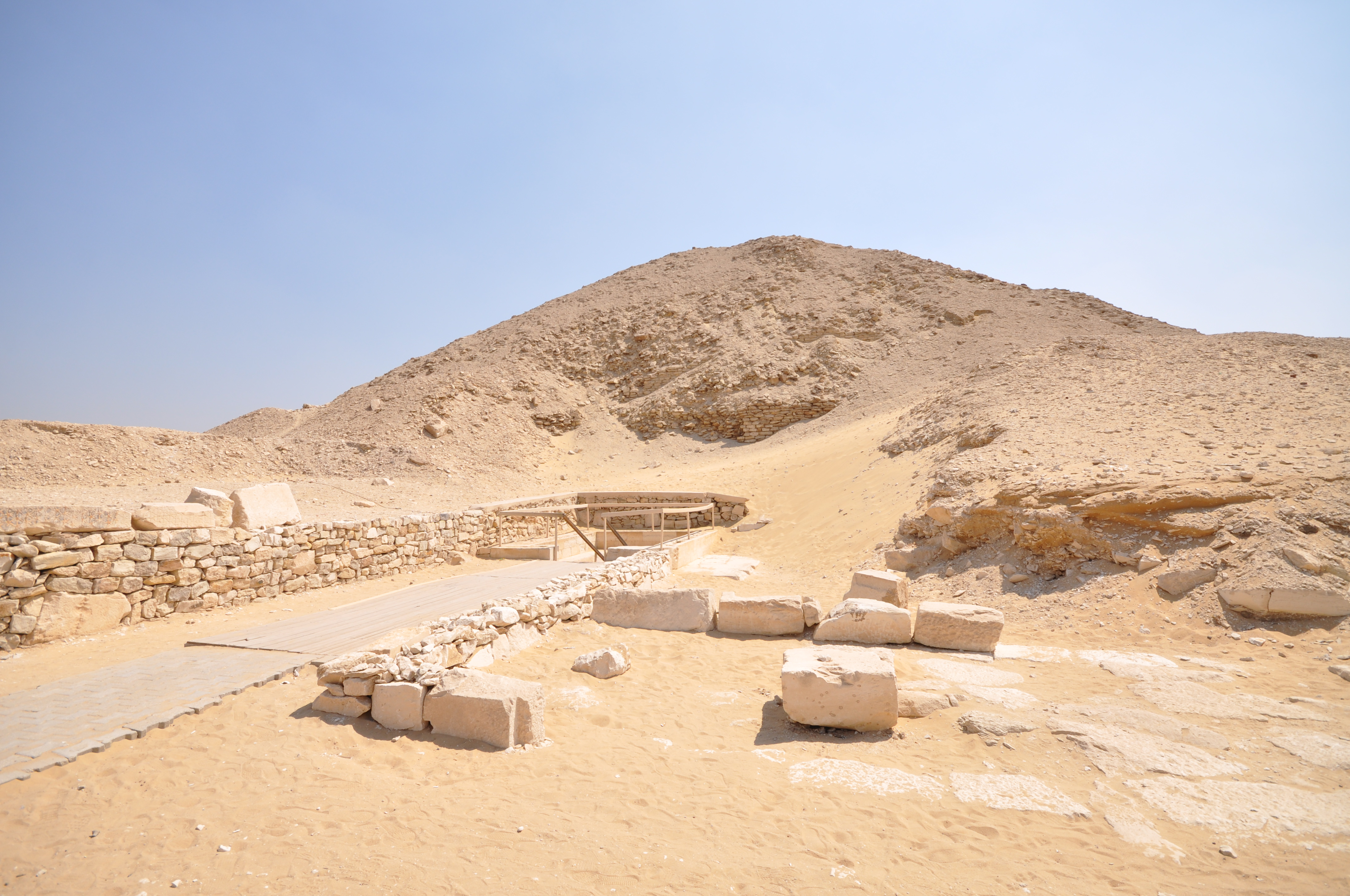 Pyramid of Teti.